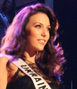 Lyudmila Bikmullina, Miss Ukraine 2007, during rehearsals for the Miss Universe 2007 pageant in Mexico City, Mexico